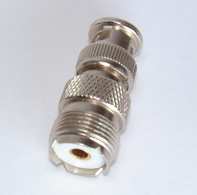 A standard UHF PL-259 female to BNC male adapter.